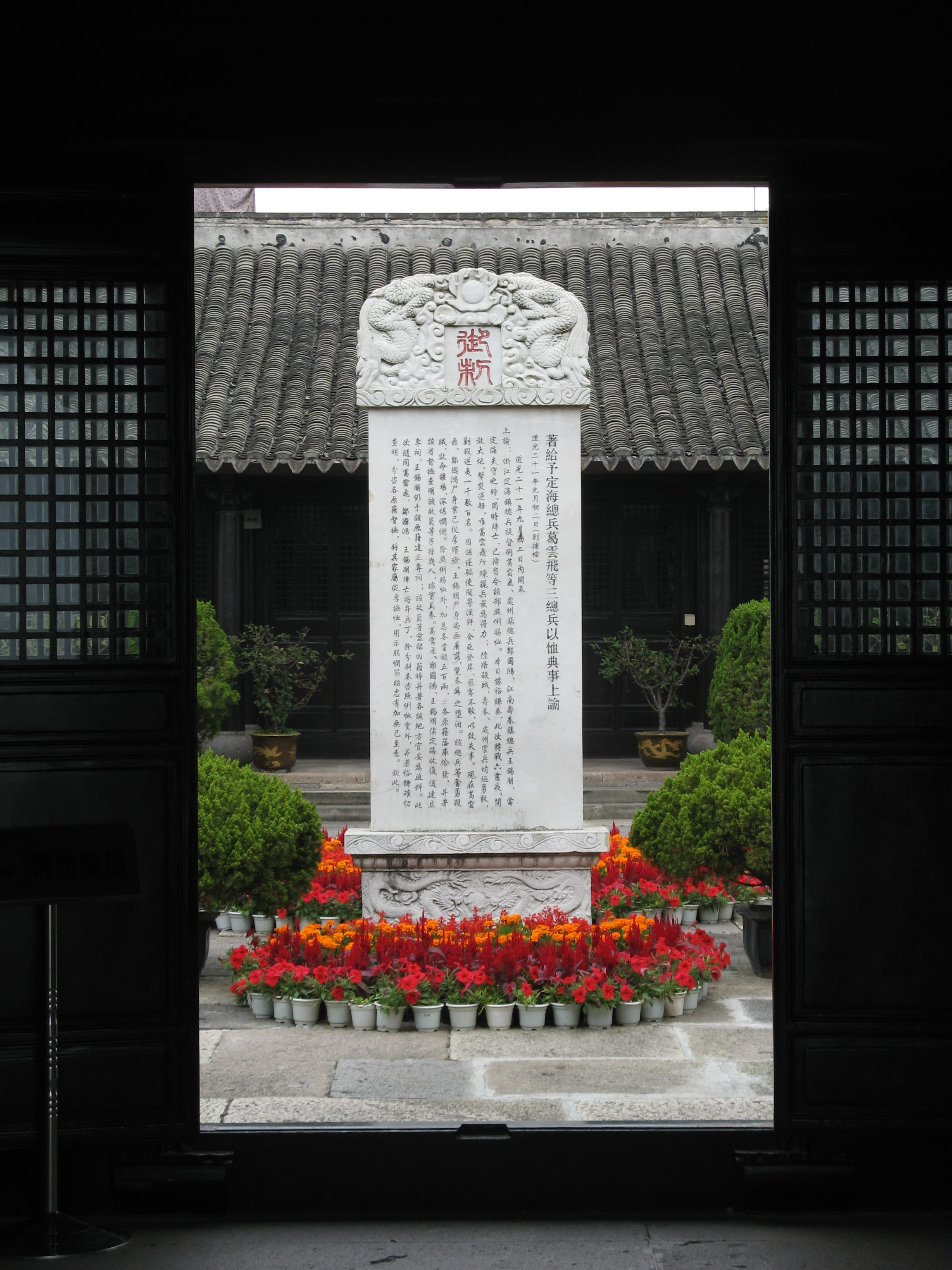 A replica of the stele bearing the award from Daoguang Emperor of Qing Dynasty (ruled over 1820 to 1850) for the bravery of three generals who withstood the British Army during the Dinghai Battle of the First Opium War.